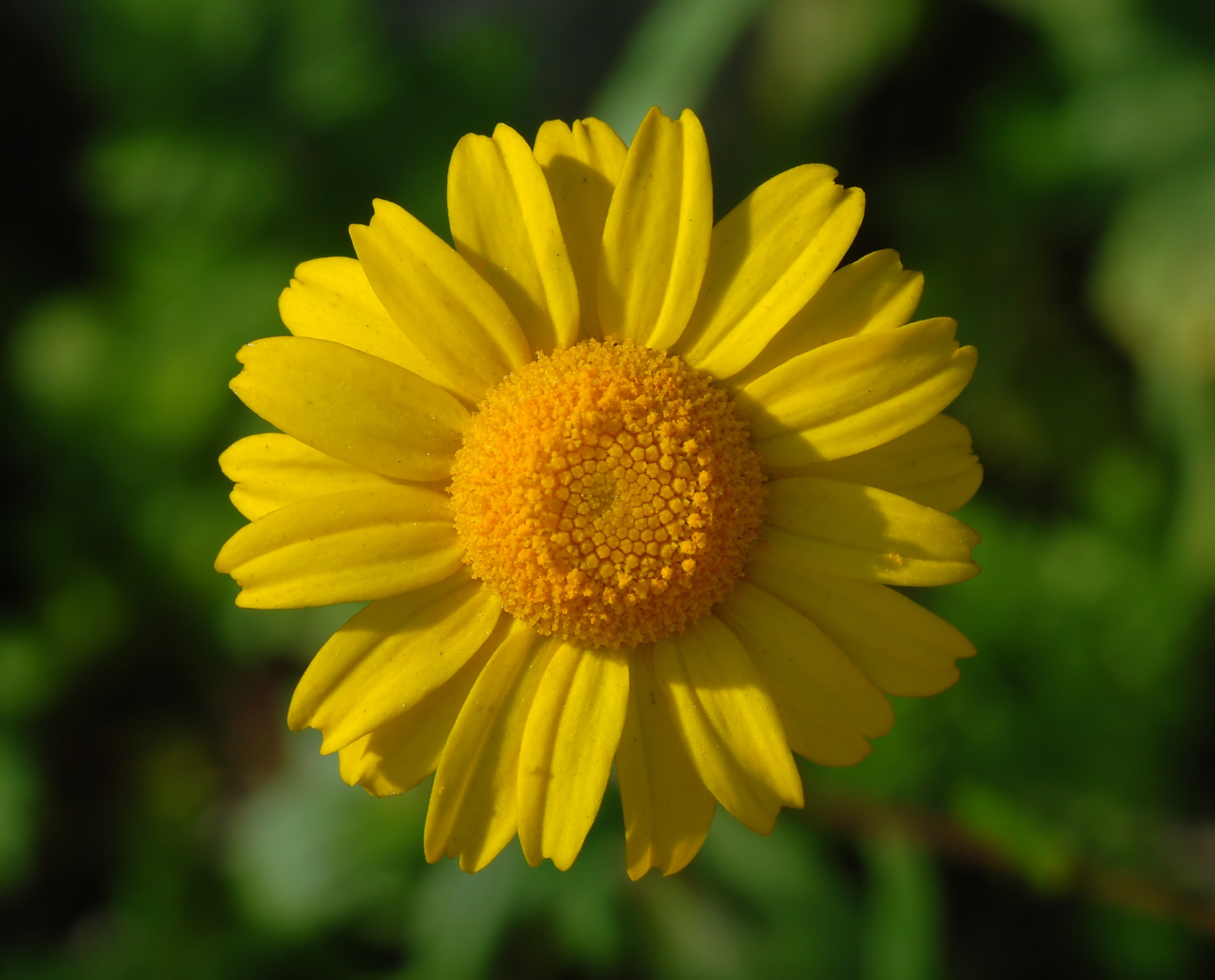 A yellow flower of Coleostephus myconis.